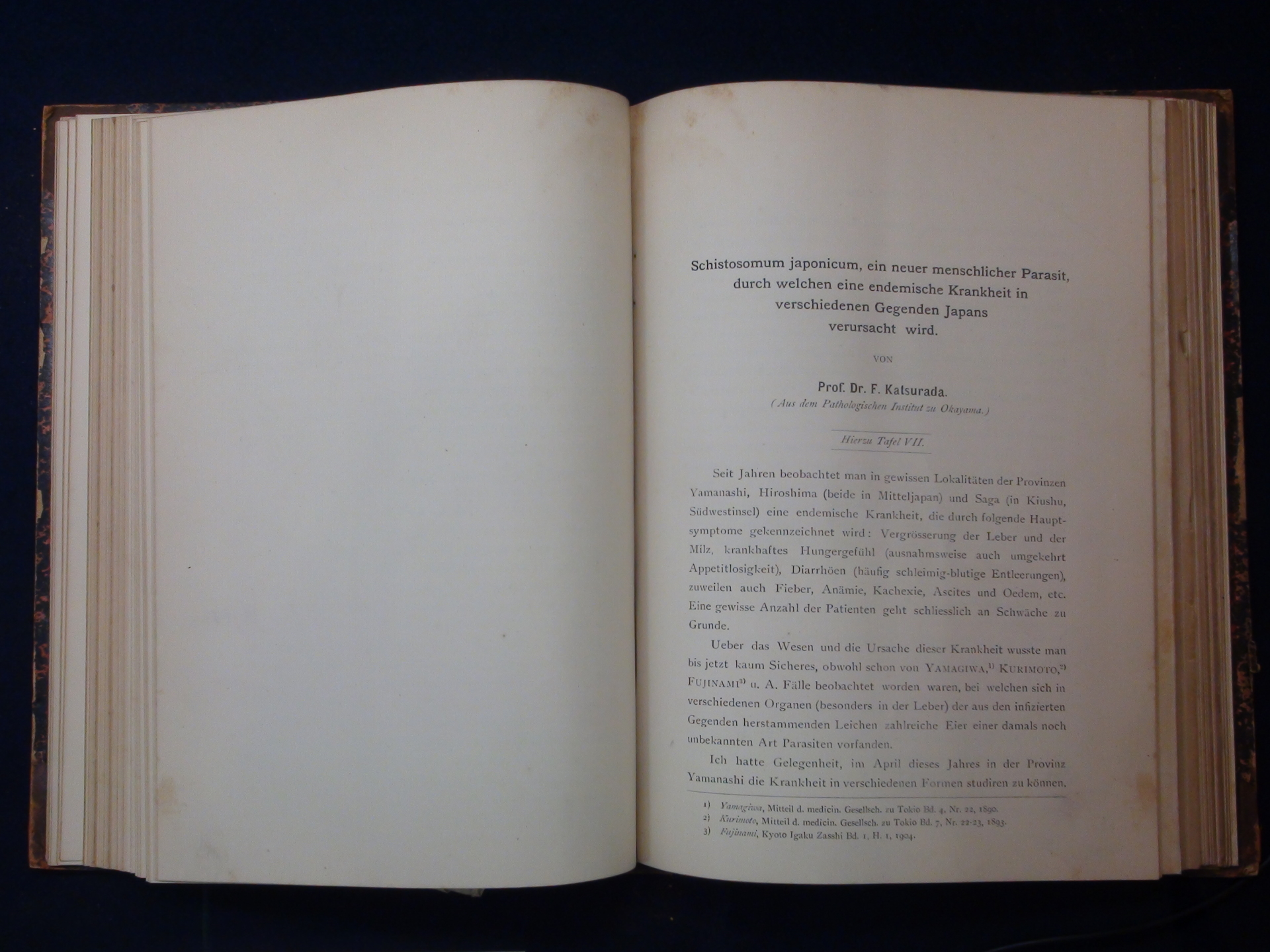 Papers written in German of Schistosoma japonicum discovery by Dr. Fujiro Katsurada. 1904.